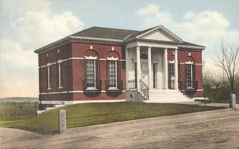 The Frederic C. Adams Library, Kingston, Massachusetts. Completed in 1898, it was designed by Joseph Everett Chandler (1864-1945), an advocate of the Colonial Revival style. It was replaced as library in 1994 and is becoming a heritage center.